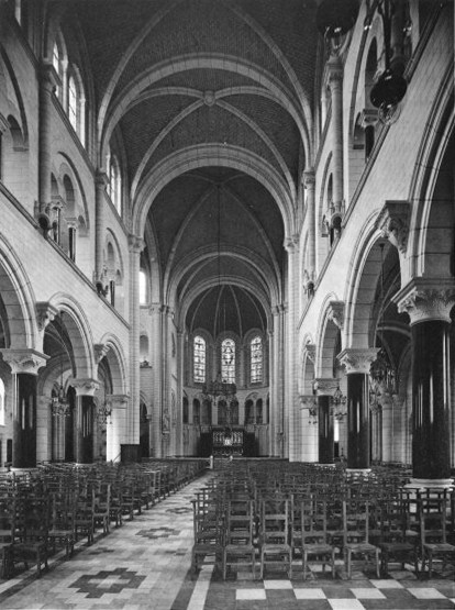 Interior of the St John Berchmans church of Brussels in 1912. The main altar and most of the original furniture has disappeared.